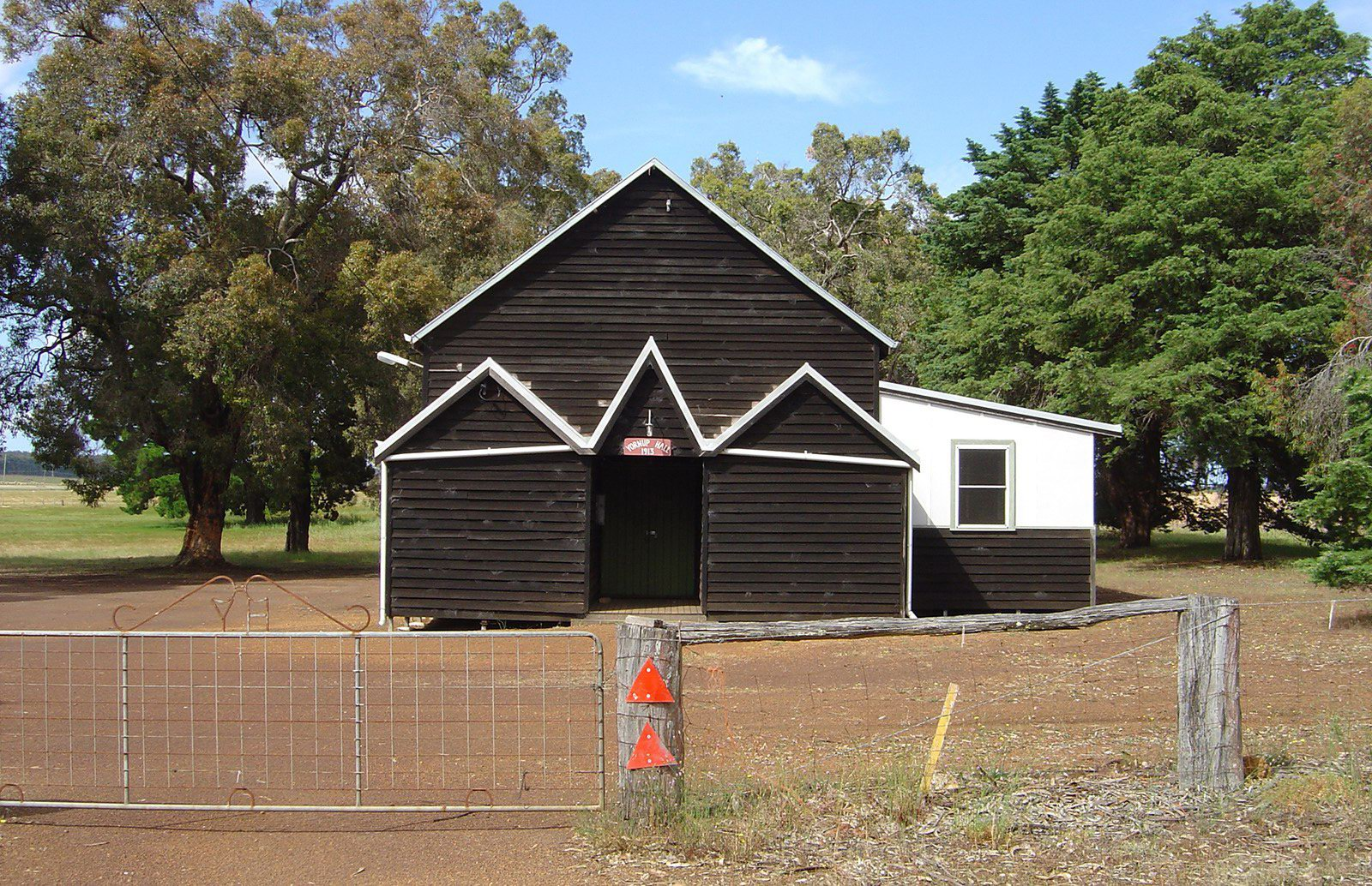 Taken by JAW 27th November 2005 Yornup Town Hall (Est 1913) Yornup Western Australia